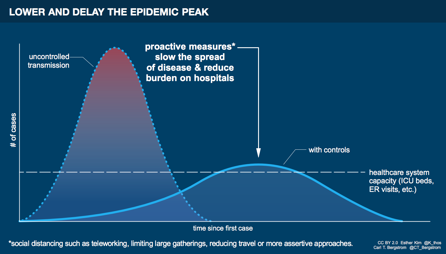 Flatten the curve. Epidemic infographic created for the coronavirus disease 2019 epidemic, but generally applicable for any pandemic. Demonstrates the benefits of slowing transmission.